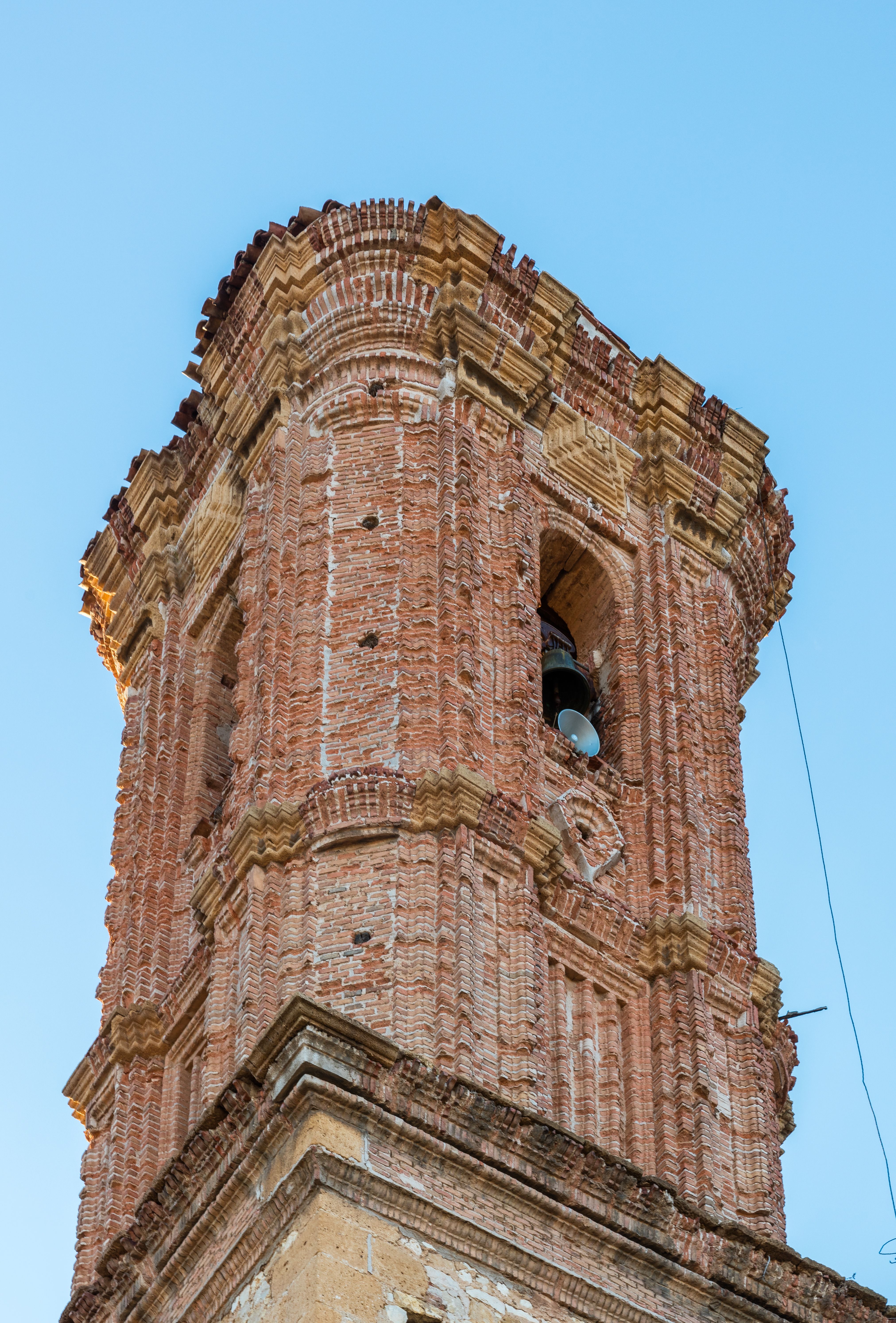 Church of Santa Cruz, Plou, Teruel, Spain